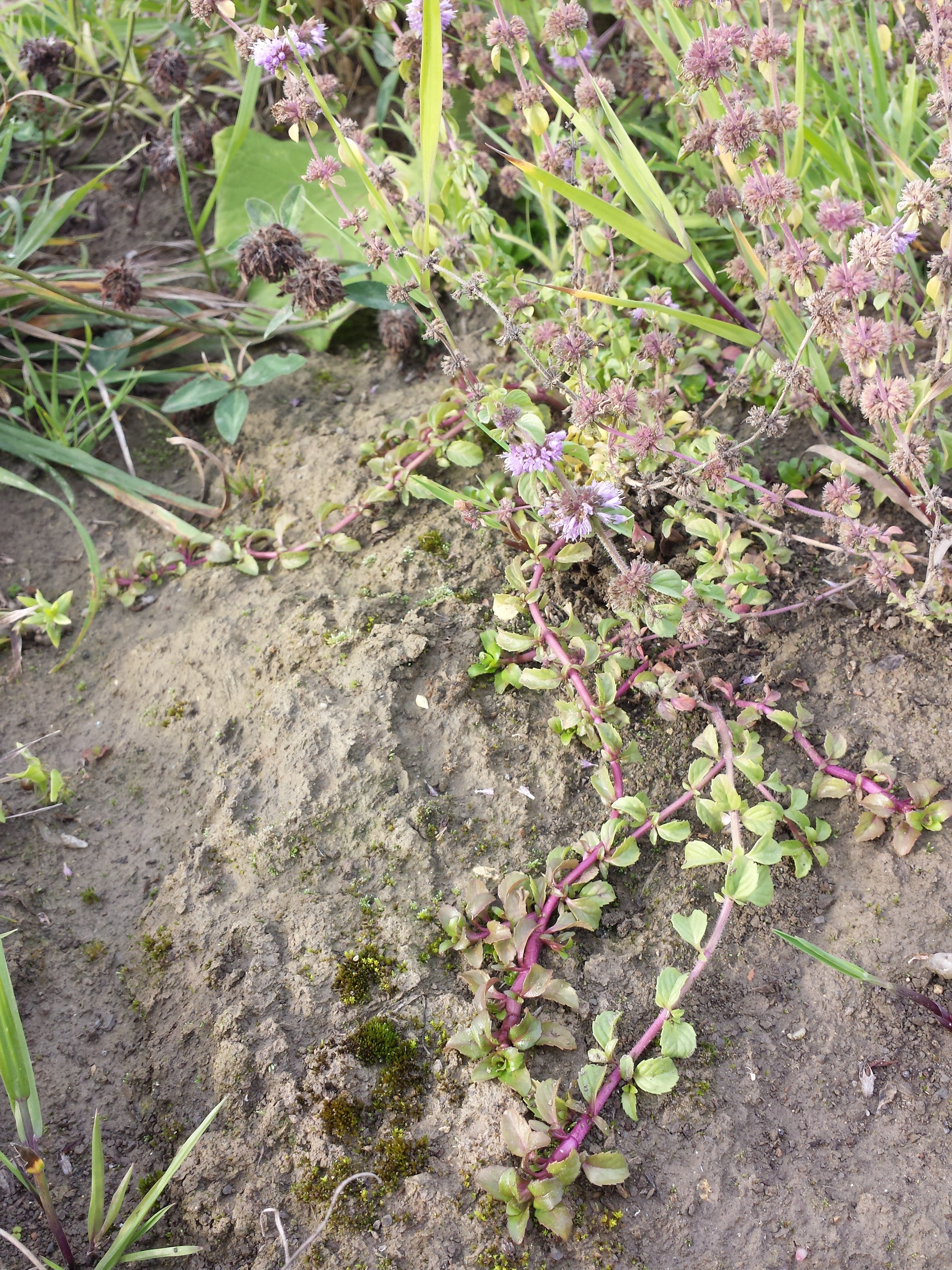 Habitus Taxonym: Mentha pulegium ss Fischer et al. EfÖLS 2008 ISBN 978-3-85474-187-9 Location: pond near Michelstetten, district Mistelbach, Lower Austria - ca. 250 m a.s.l. Habitat: shore of a pond